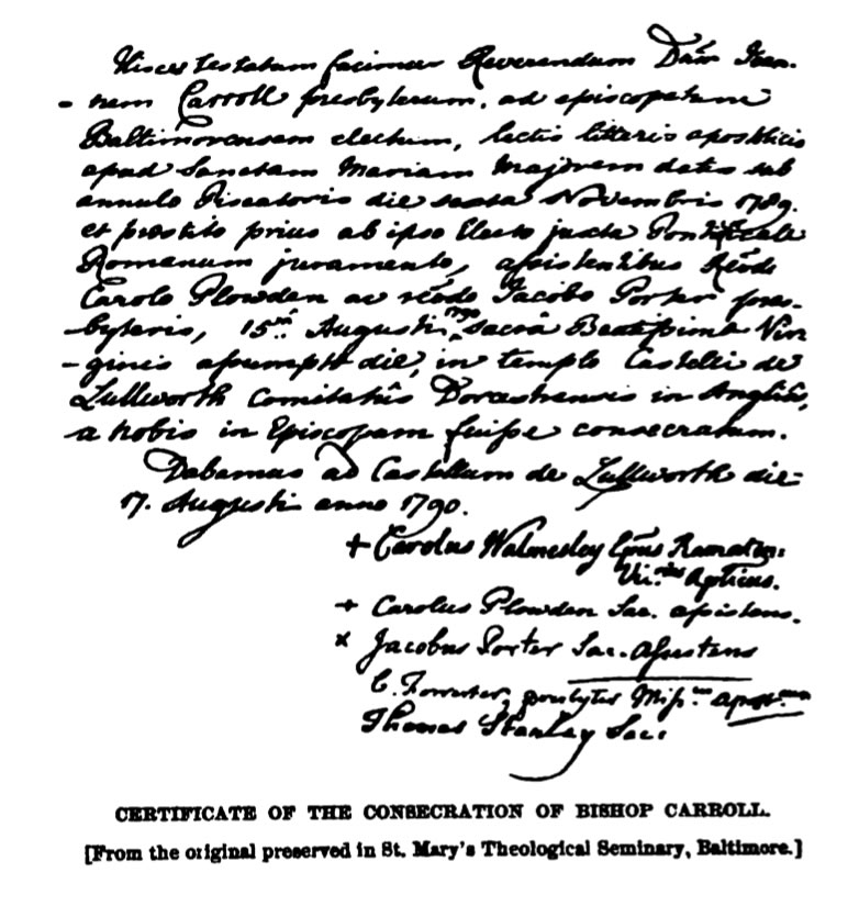 Certificate of the episcopal ordination of John Carroll. It is signed by Charles Walmesley, Vicar Apostolic of the Western District (England) and titular bishop of Ramatha. It is also signed by Charles Plowden and 3 others, recalls Caroll's ordination on 15 August 1790, and was done at Lulworth Castle, Dorset, England.